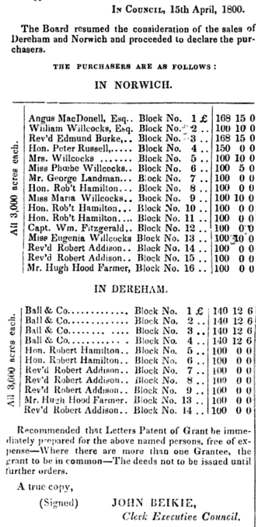 public notice of successful bidders for blocks of land offered for sale in Norwich and Dereham townships, Oxford County